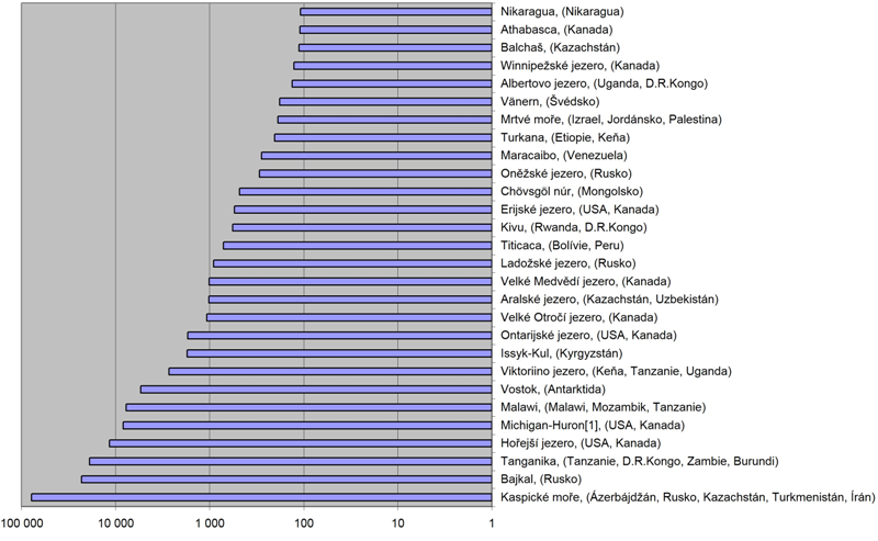 Table of lakes by volume in Czech.